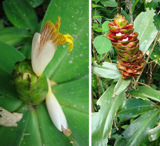 Dick Culbert: C. laevis differs from other Costus species by having wide leaves, patterned flowers and bracts which remain at least partly green. but then so does Costus pictus.